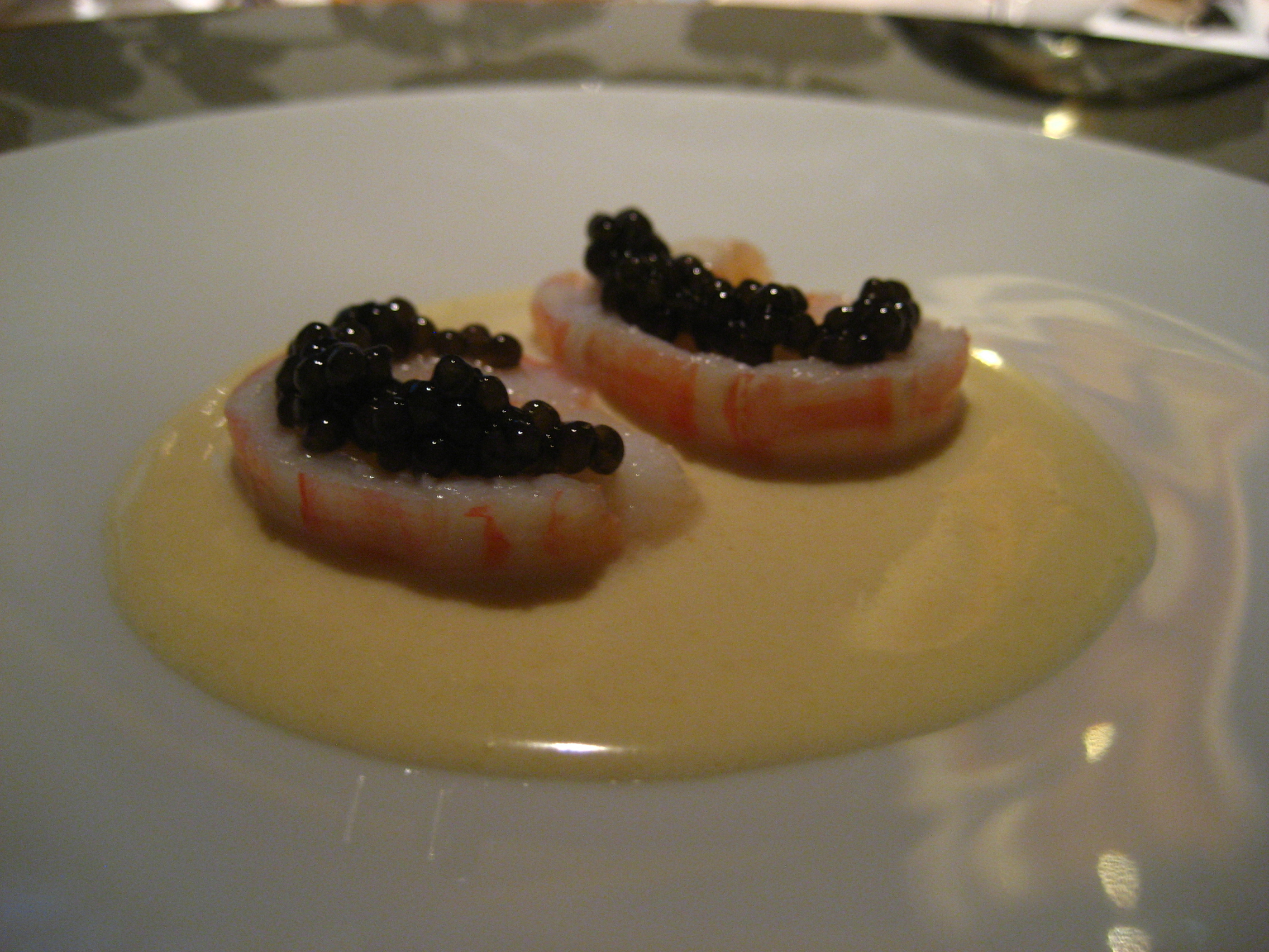 From Alain Ducasse at the Dorchester